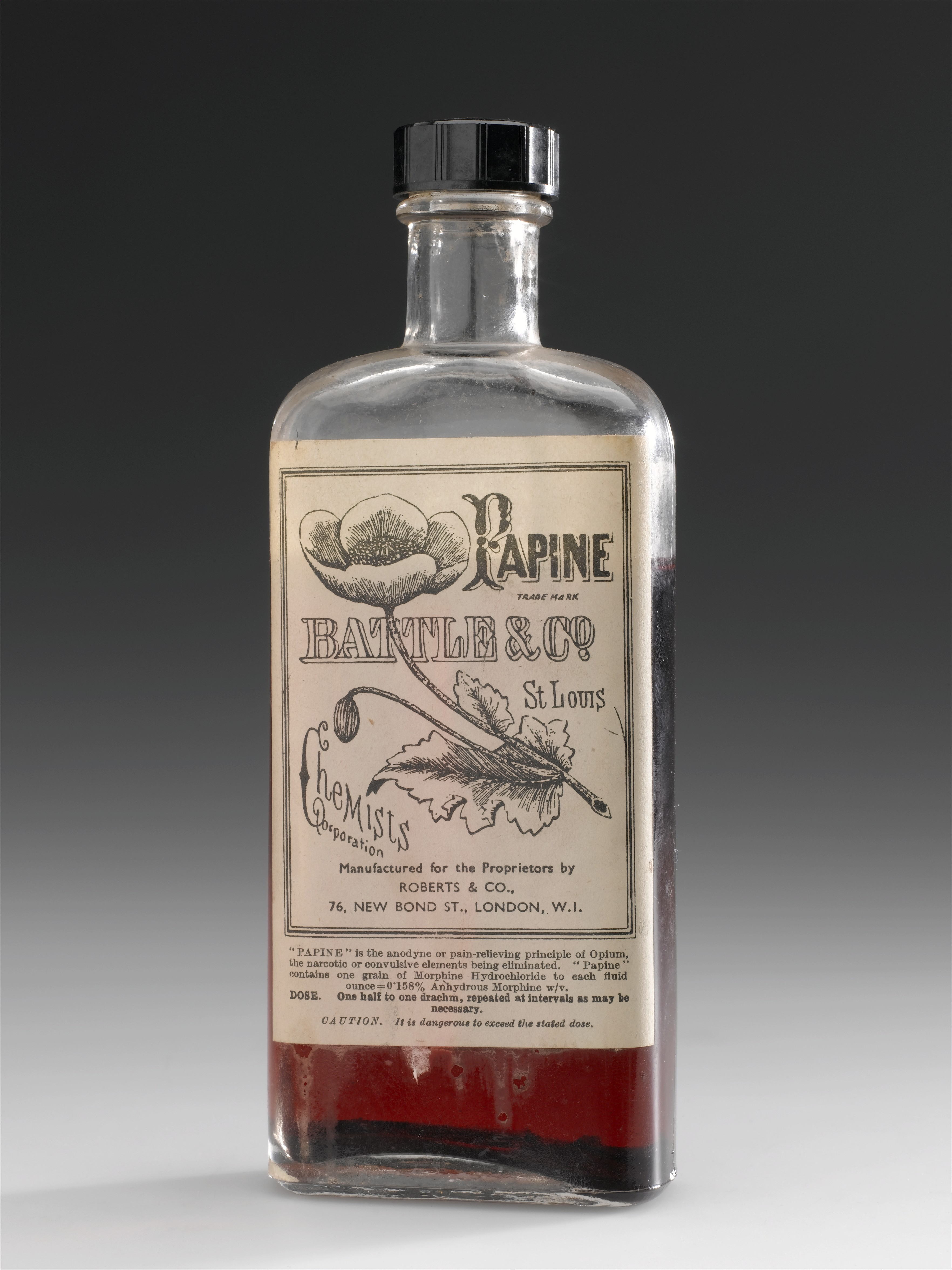 ‘Papine’ is a trade name for an effective pain killer. It is known as an opiate, which means it is a naturally occurring compound in the opium poppy. The Latin name of this poppy is Papaver somniferum, and suggests where the brand name came from. The label on the bottle promises that the sleep and seizure-inducing effects of opium have been removed. Opium and opiates are known to be addictive and if taken for long enough may lead to dependence on the drug. ‘Papine’ was available over the counter at chemists. maker: Roberts and Company Place made: London, Greater London, England, United Kingdom Wellcome Images Keywords: Opium; bottle